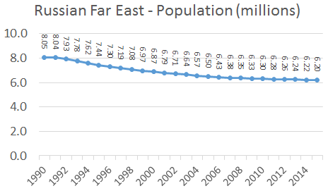 Population of the Russian Far East, 1990-2015 Data source: Fedstat